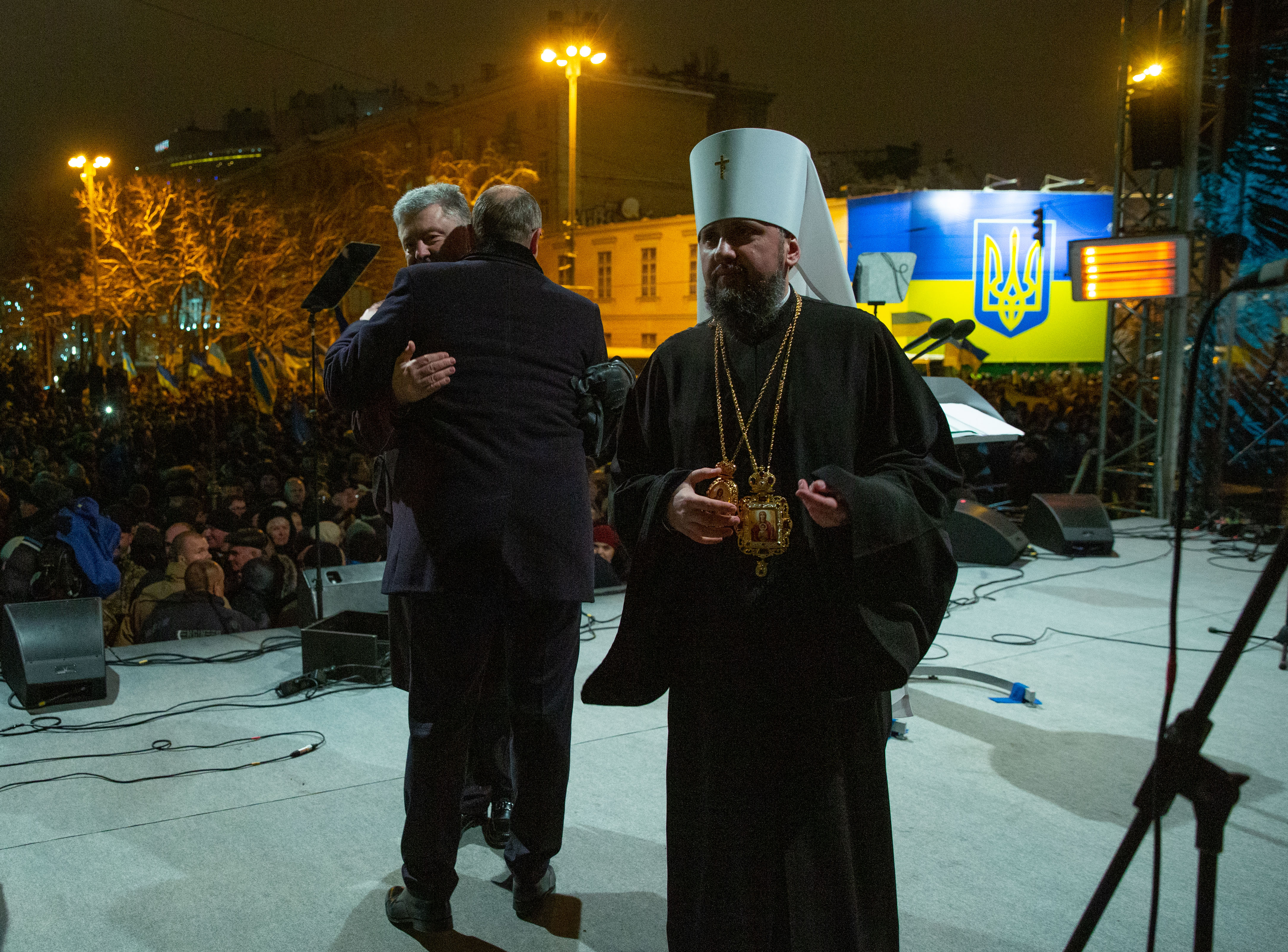 Unification council of Orthodox Church in Ukraine